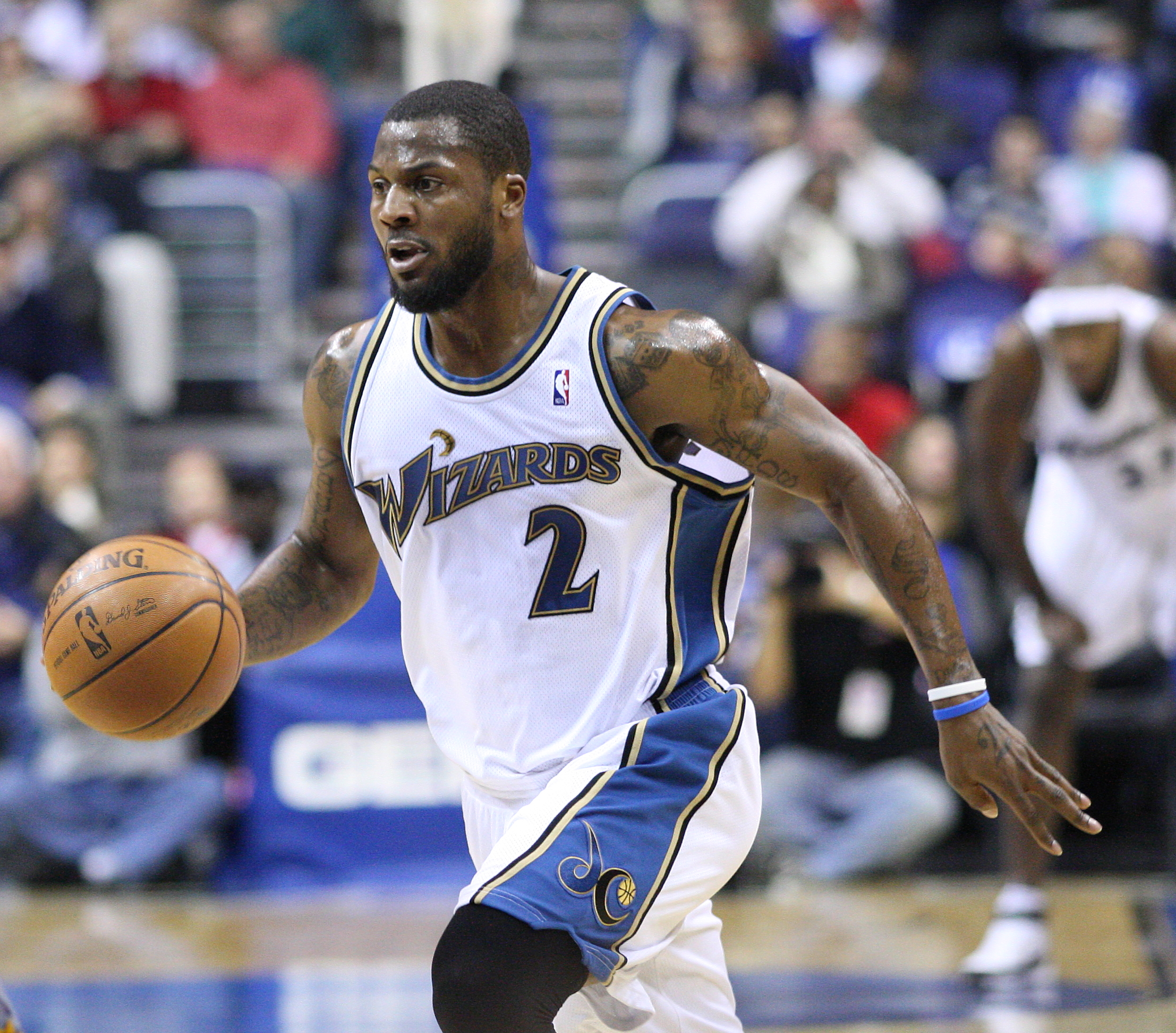 DeShawn Stevenson